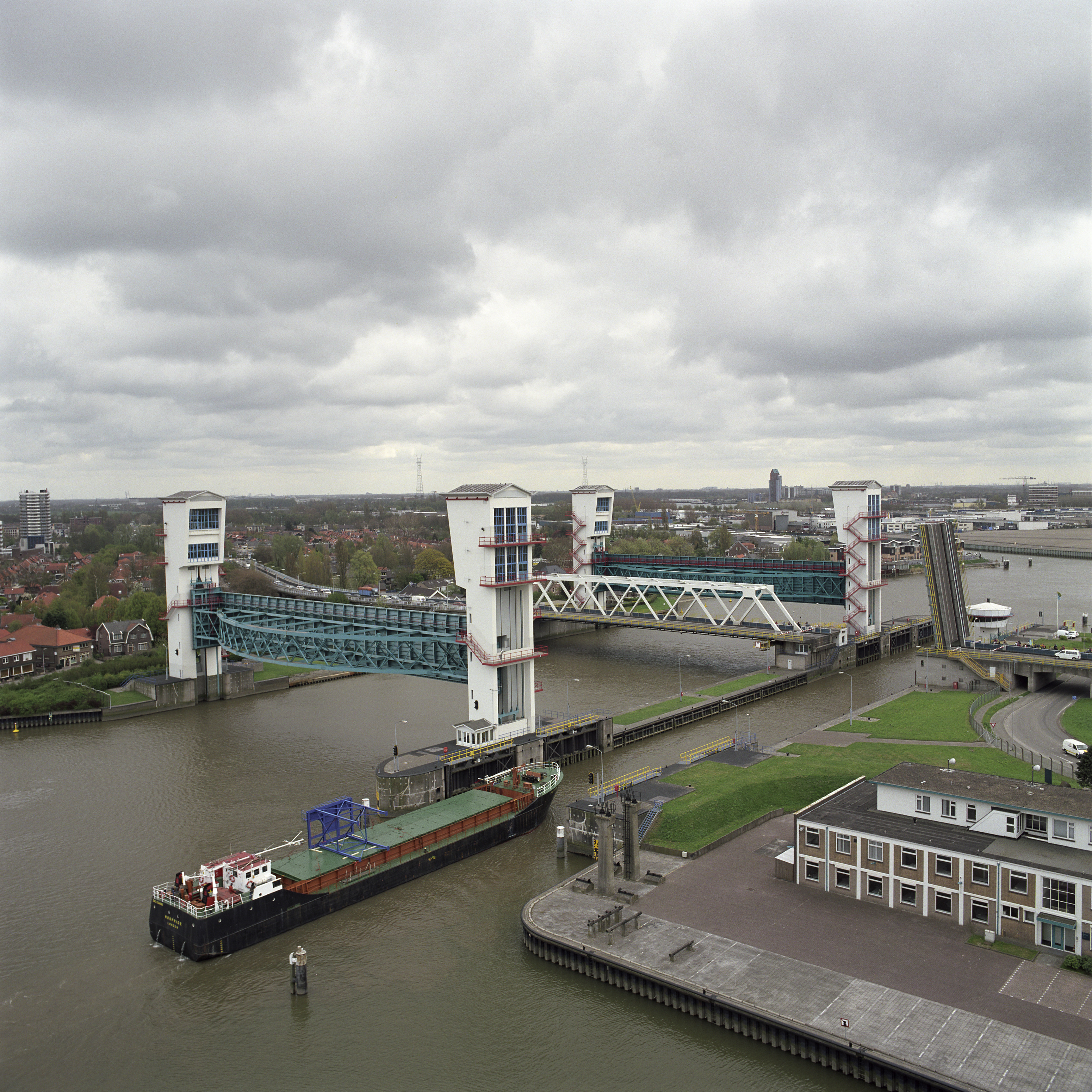 Bird's-eye perspective of the floodgate in the Dutch river de Hollandse IJssel at Krimpen aan de IJssel, the Netherlands.